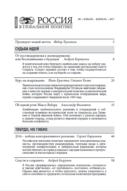 The frontpage of the "Russia in global affairs", the journal on foreign policy and international relations